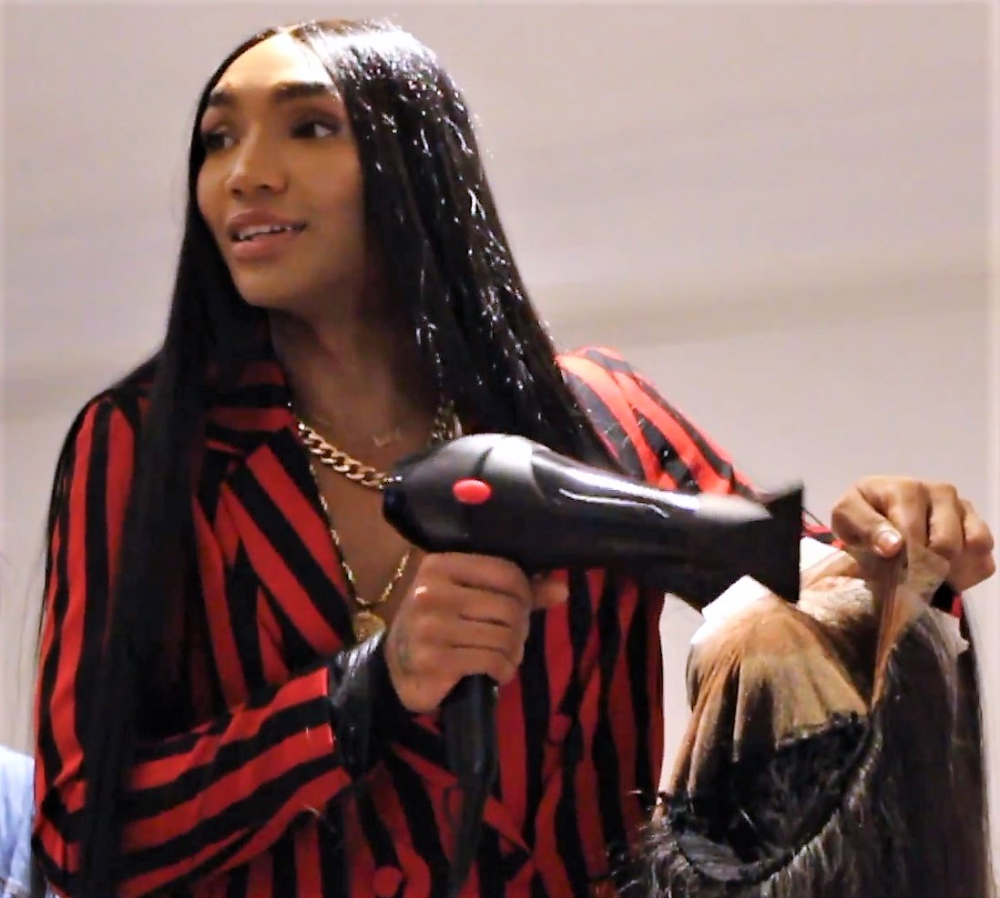 Meeting Tokyo Stylez&Anthony Cuts, Hair Expo2017. VLOG (MamaTee) Instagram _lorealrochelle twitter - loreal rochelle snapchat - lorealrochelle